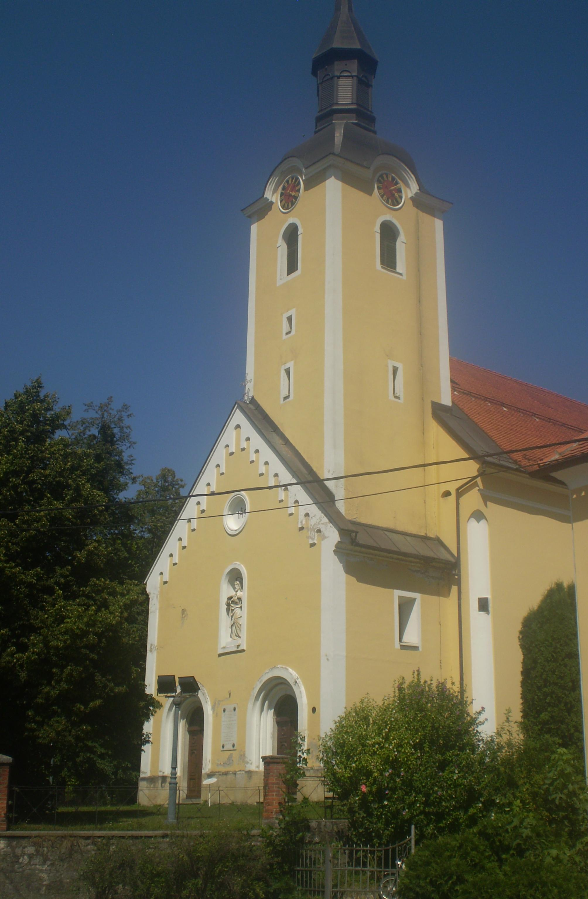 Photo of church st. Marija Magdalena in Ivanec, Croatia.